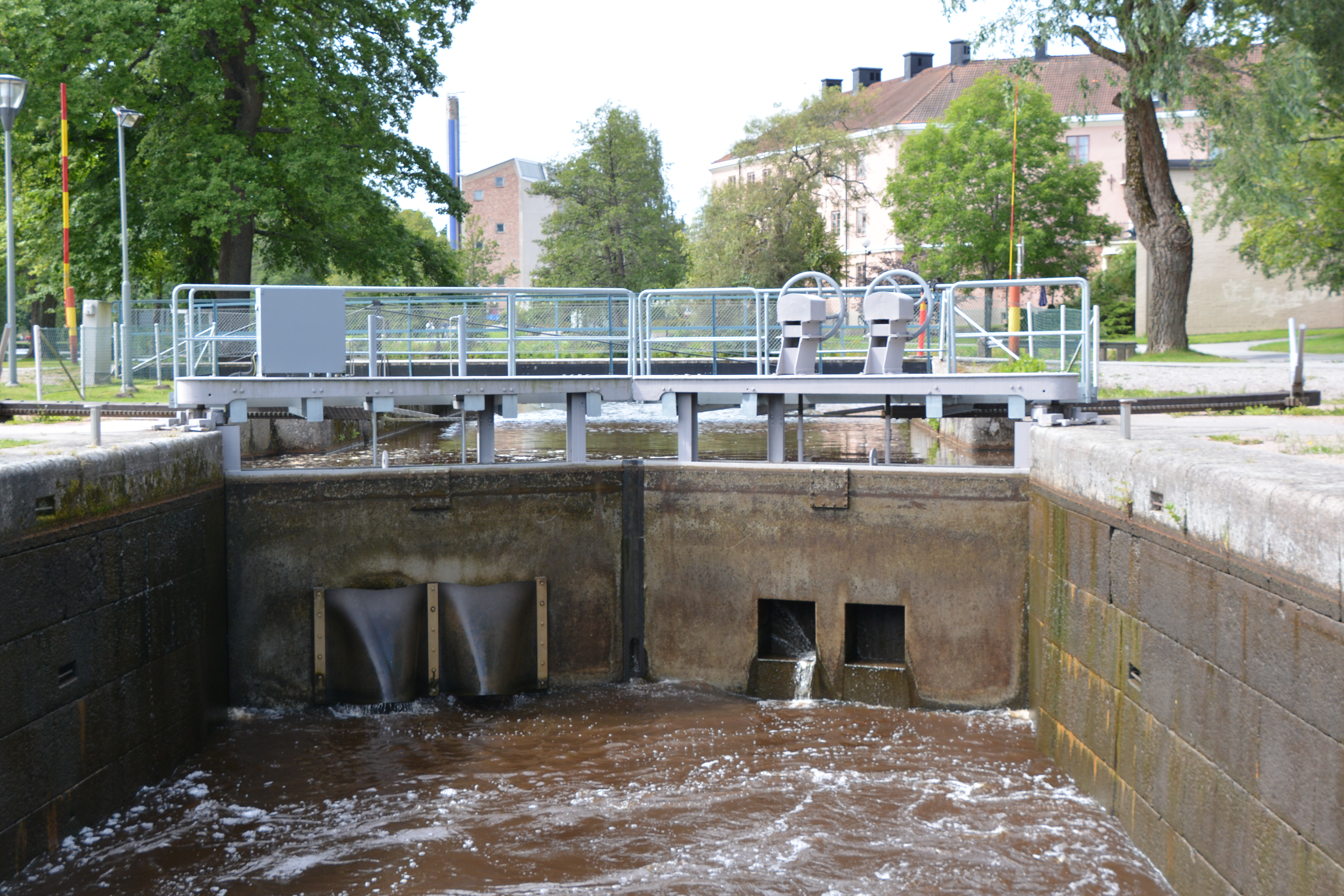 Örebro Canal